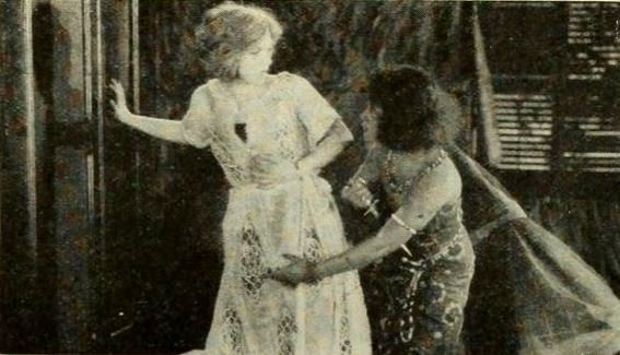 Still from the American drama film South of Suva (1922) with Mary Miles Minter, on page 64 of the August 1922 Photoplay.